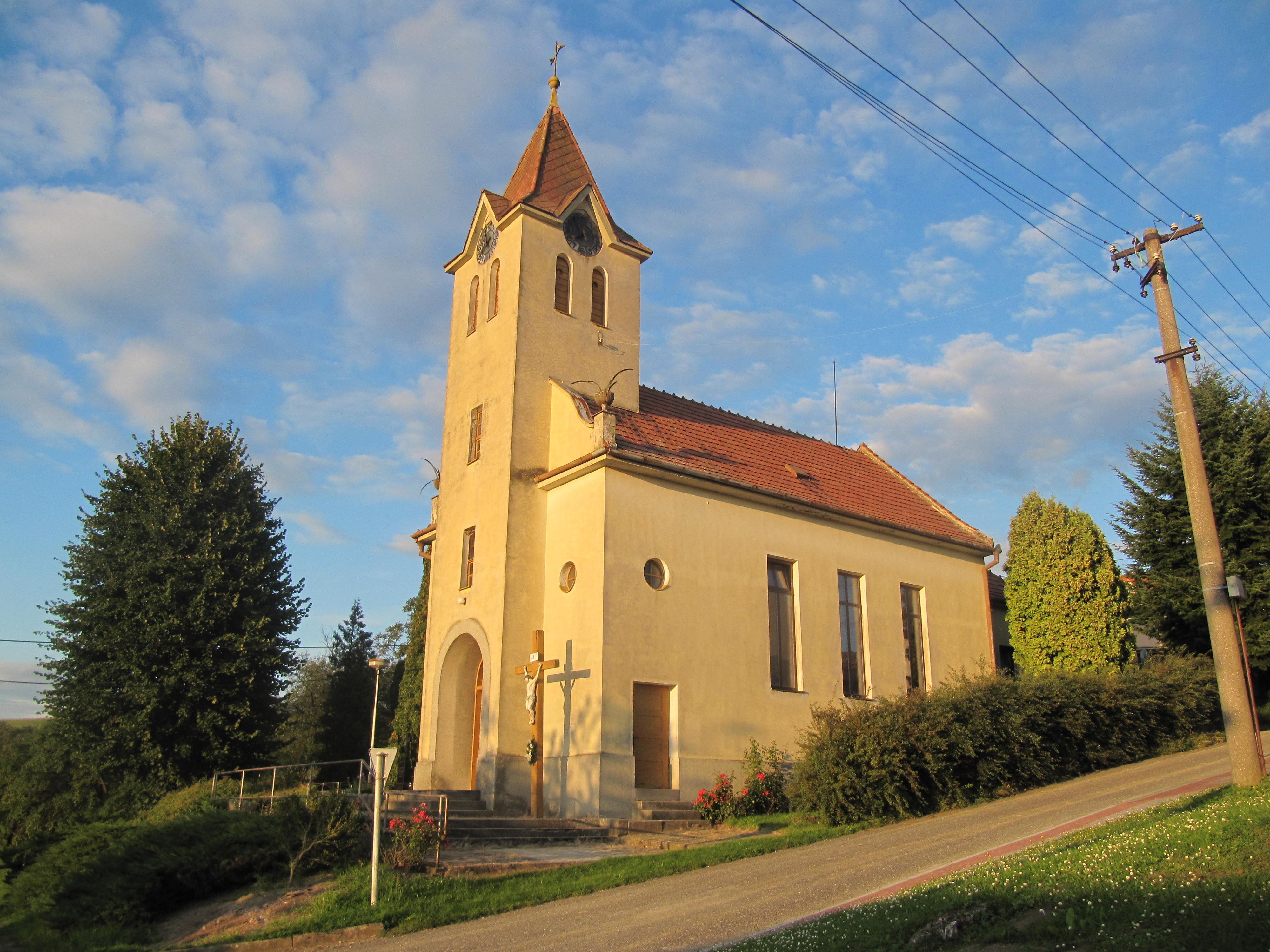 Komárov in Zlín District, Czech Republic.Church.